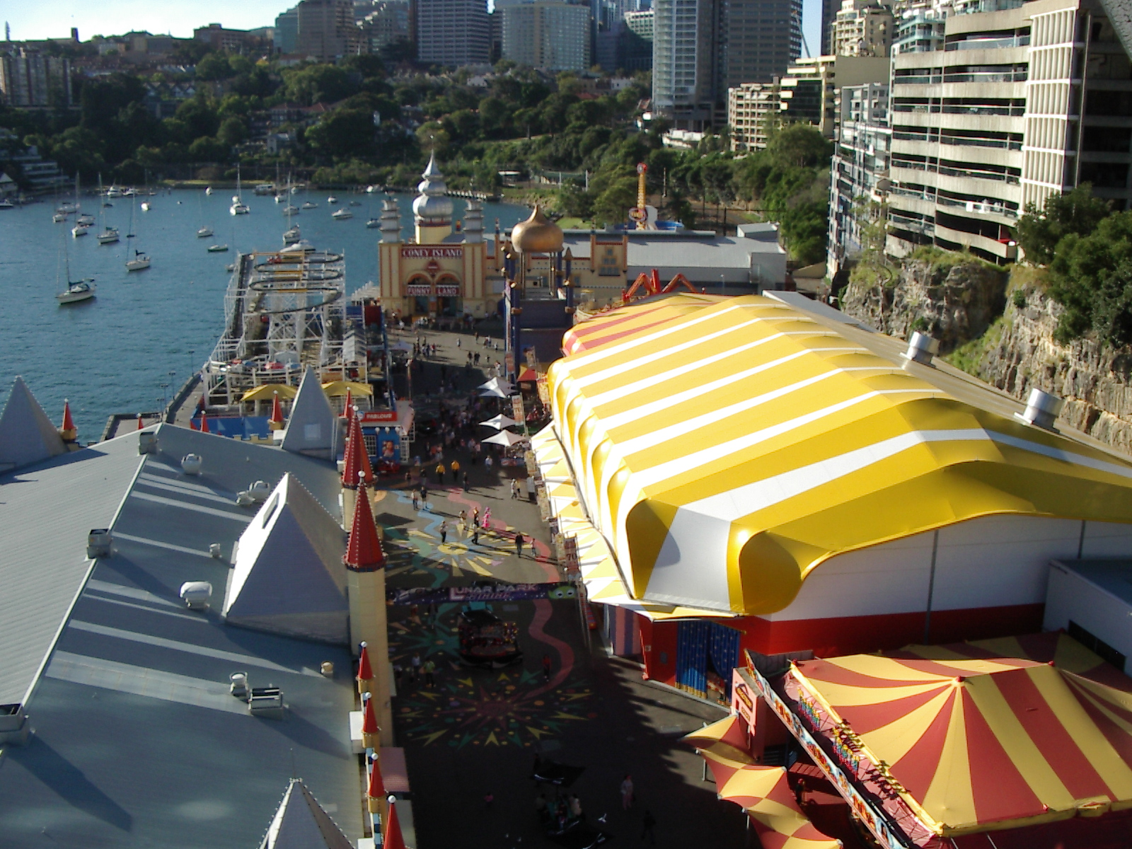 Photograph displaying "Maloney's Corner", an area of Luna Park Sydney. The Midway is the main section of Luna Park. Displayed in this photograph, which was taken from the Ferris Wheel are (starting from left, moving clockwise), the Crystal Palace (grey roof, red spires), the Wild Mouse roller coaster, Coney Island (centre), the Big Top (yellow and white roof), and the Tango Train.